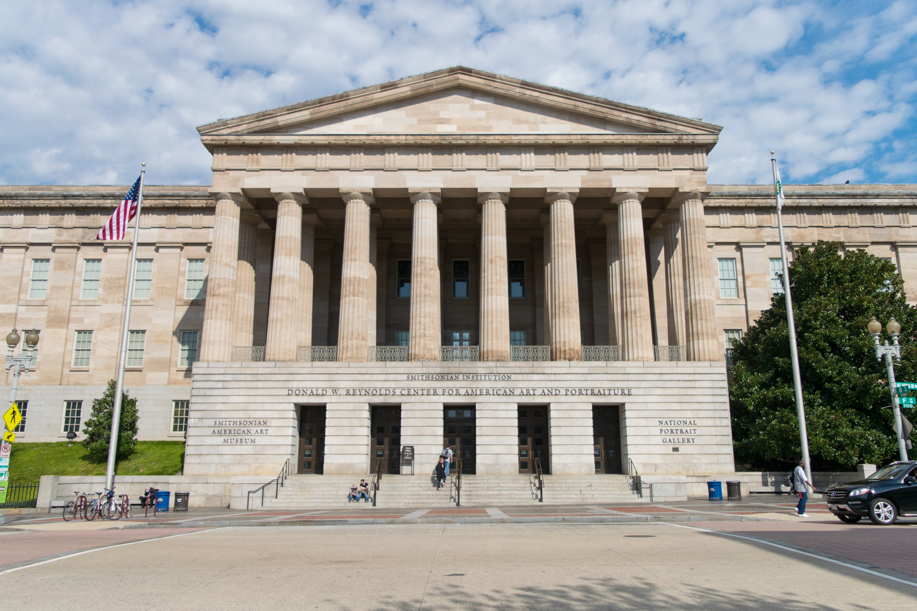 South (F Street) entrance to the National Portrait Gallery / Smithsonian American Art Museum.